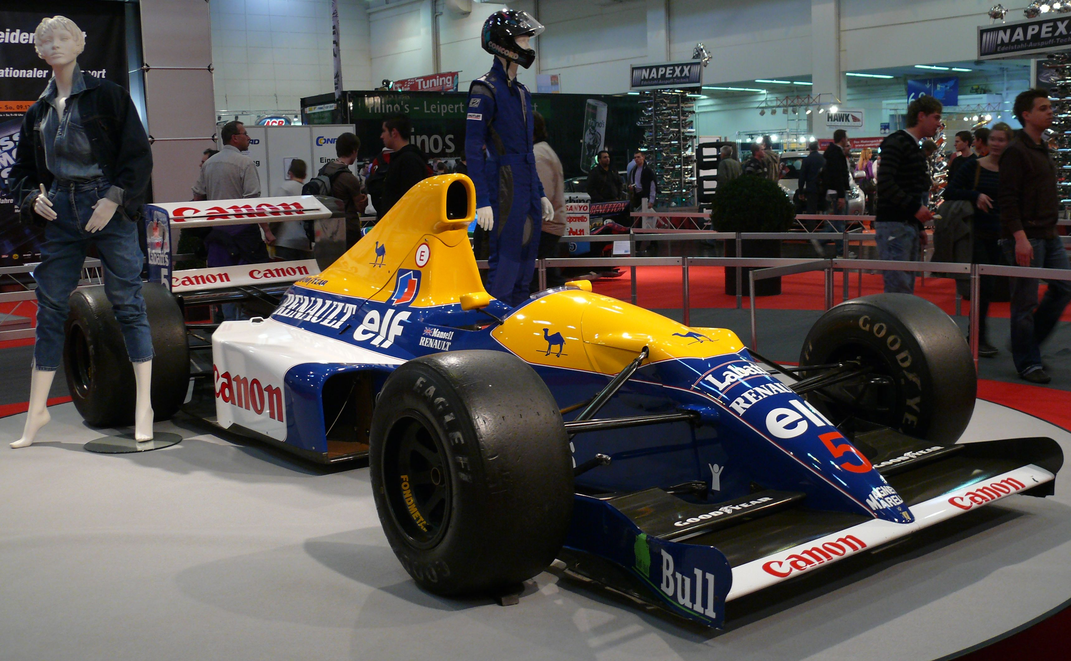 Williams FW13